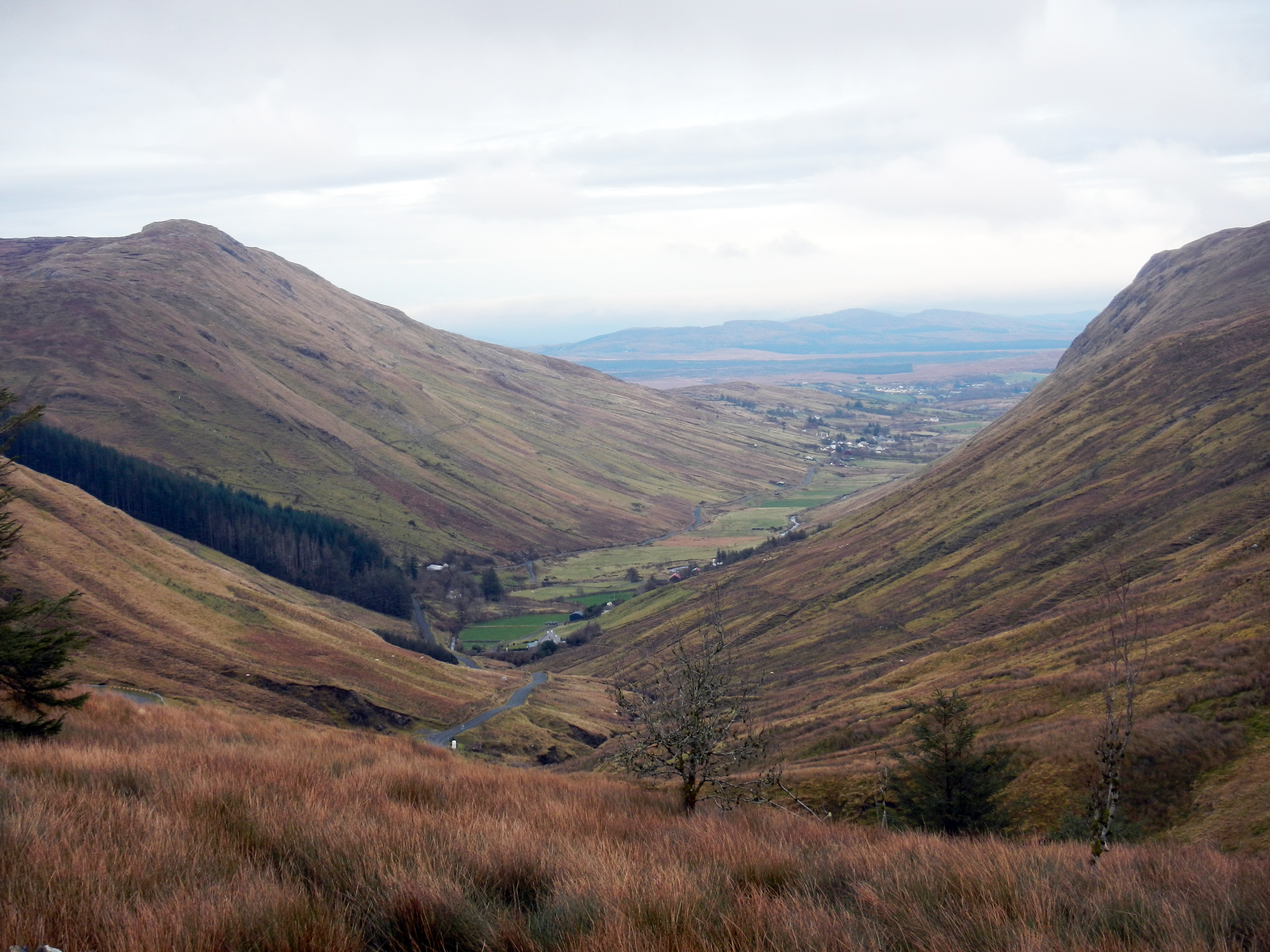 Glengesh Pass looking NE into Ardara, County Donegal, Ireland.